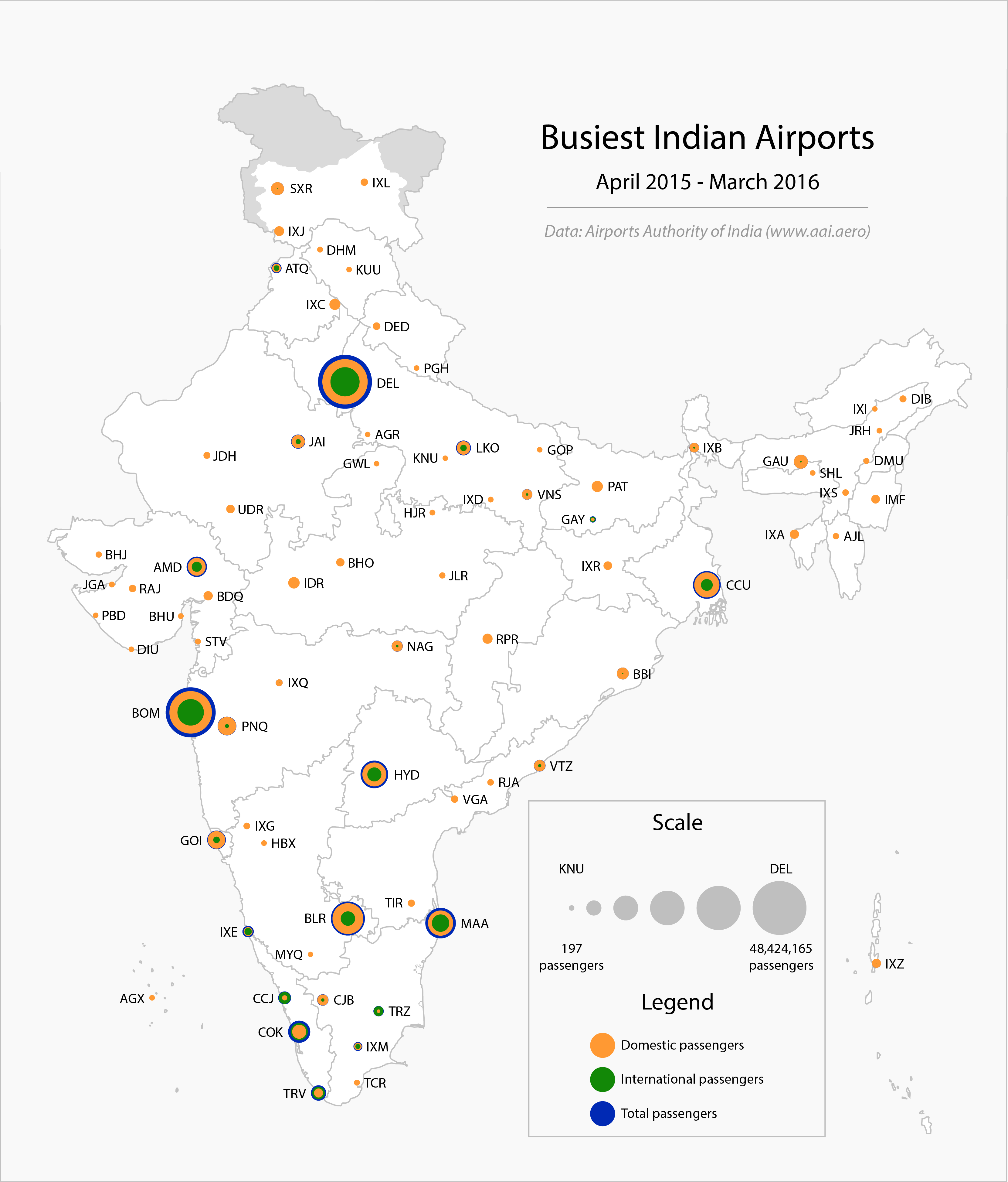 A map of India showing the busiest Indian Airports from April 2015 - March 2016.